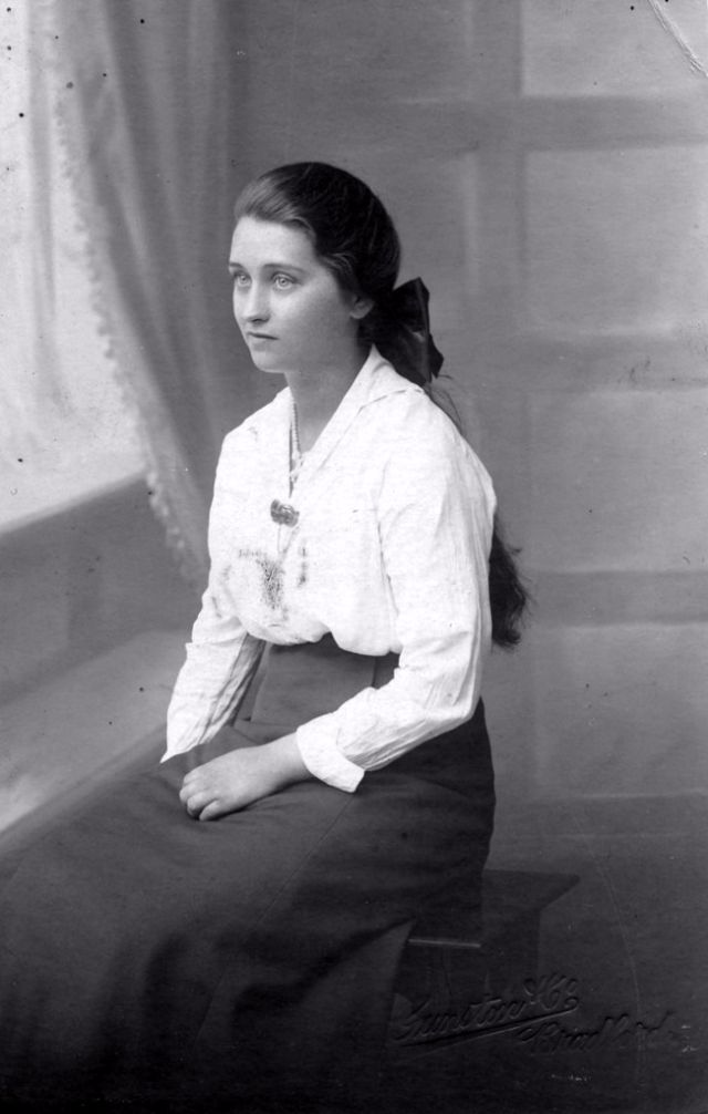 Photo of Catherine Buckley in Ireland